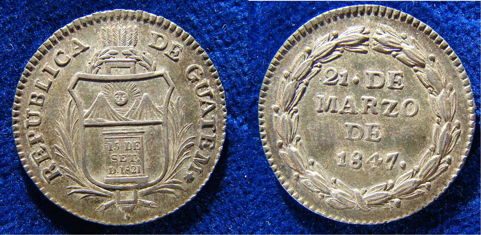 Guatemala 1 Real 1847 Silver Coin UNC. D.= 20 mm. 3.36 g Ag. Proclamation of the independent republic Guatemala on 21 March 1847. 3 lines in the arms of Guatemala: "15 DE SET. D. 1821", curved above: REPUBLICA DE GUATEM*" / 4 lines in a wreath of laurels: "21. DE MARZO DE 1847." Fonrobert 7236. Condition: Choice UNCIRCULATED, with an old very nice toning